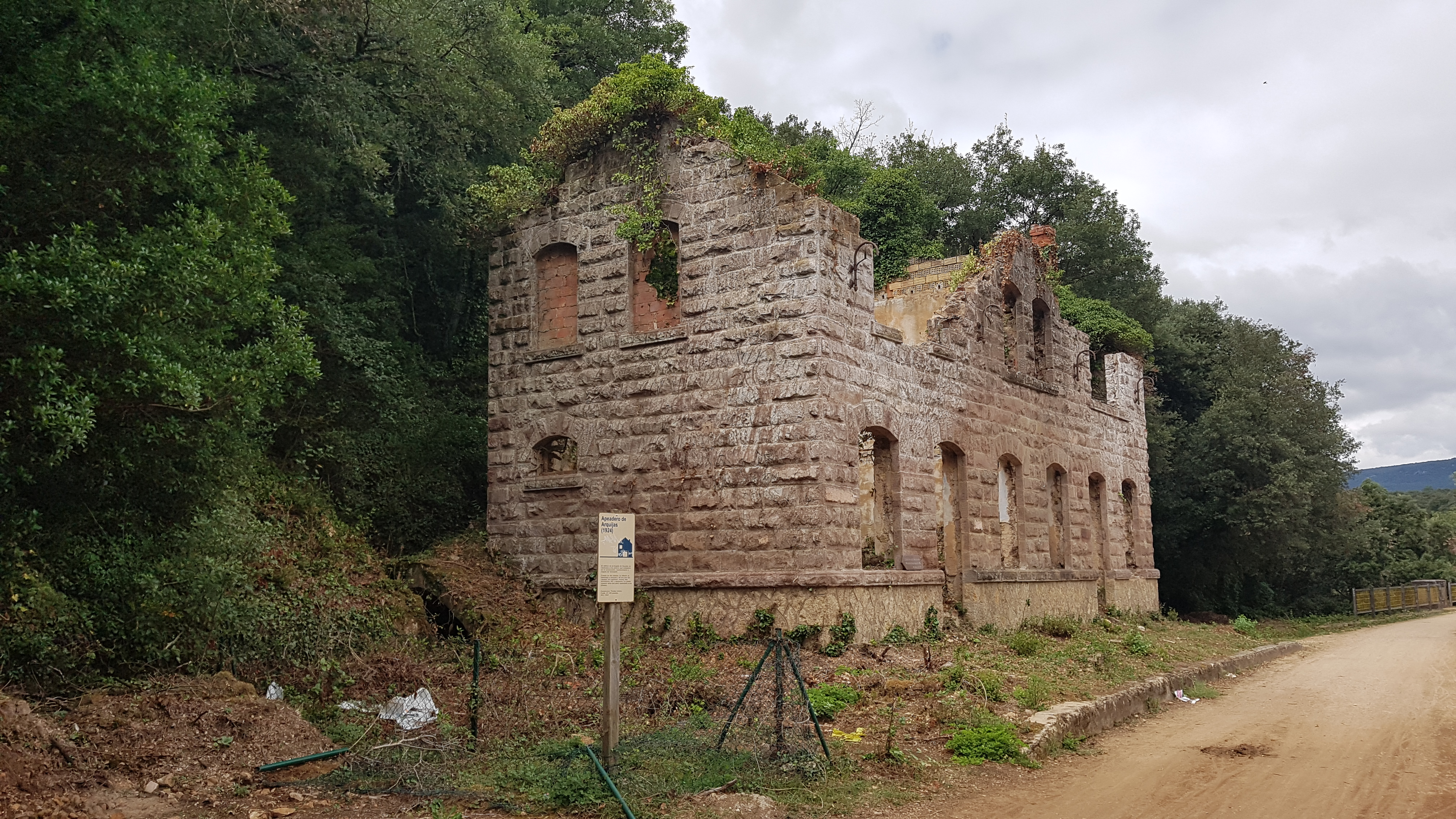 Halt of Arkijas (Zuñiga) of the Anglo-Vasco-Navarro railway